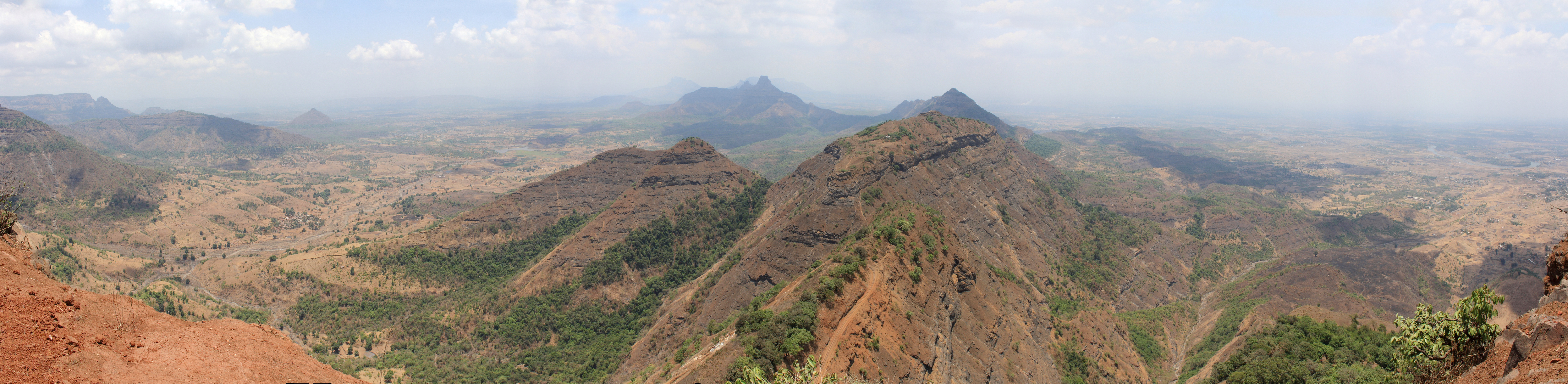 Panoramic View during dry season from the Panorama Point on the Matheran Hill. On the ridge in front you can see the railroad track wriggling around.